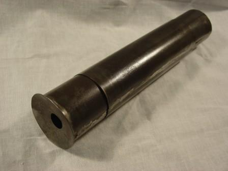 Reproduction of an optical device that Zacharias Snijder in 1841 claimed was an early telescope built by Zacharias Janssen. In 1858 Utrecht professor Pieter Harting claimed it to be a microscope, still attributed to Zacharias Janssen. Its actual function and creator has been disputed. Reproduction was made by John Mayall, London UK, in the 1890s and is presently in the collection of the National Museum of Health and Medicine in Silver Spring, MD. [1]